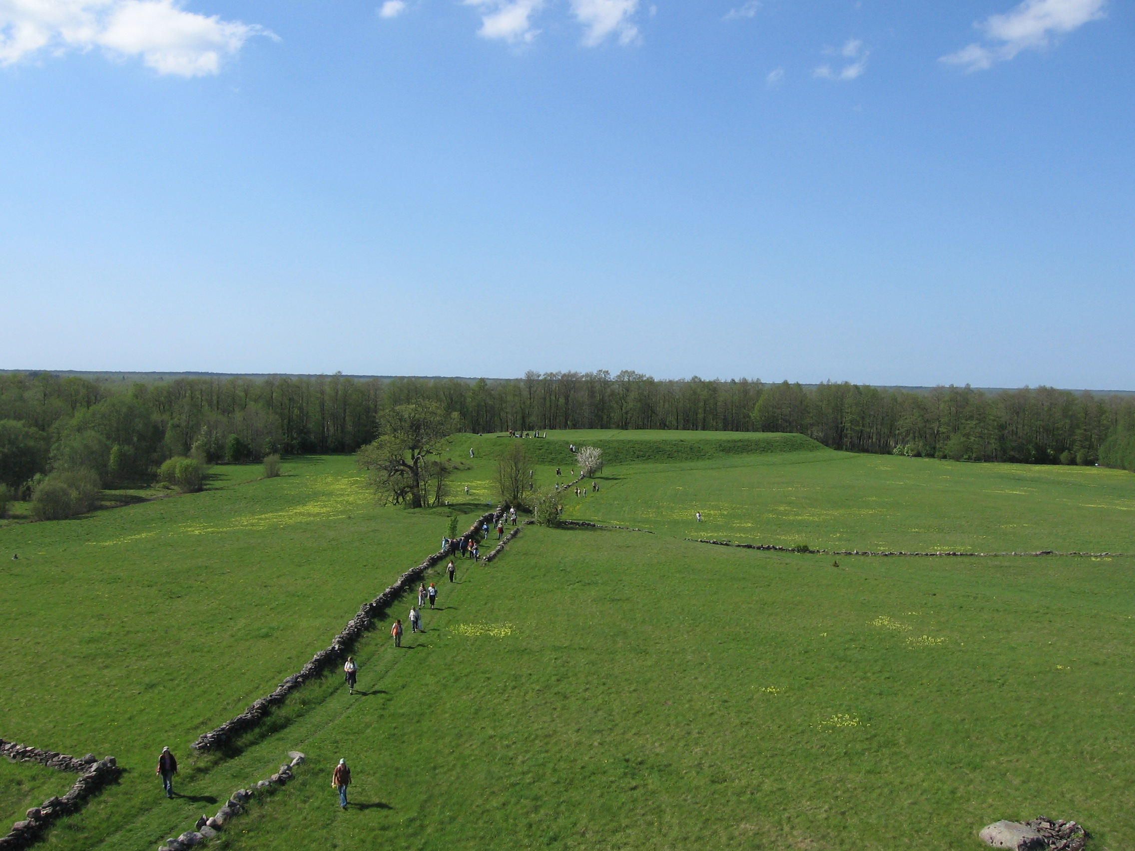 Soontagana stronghold